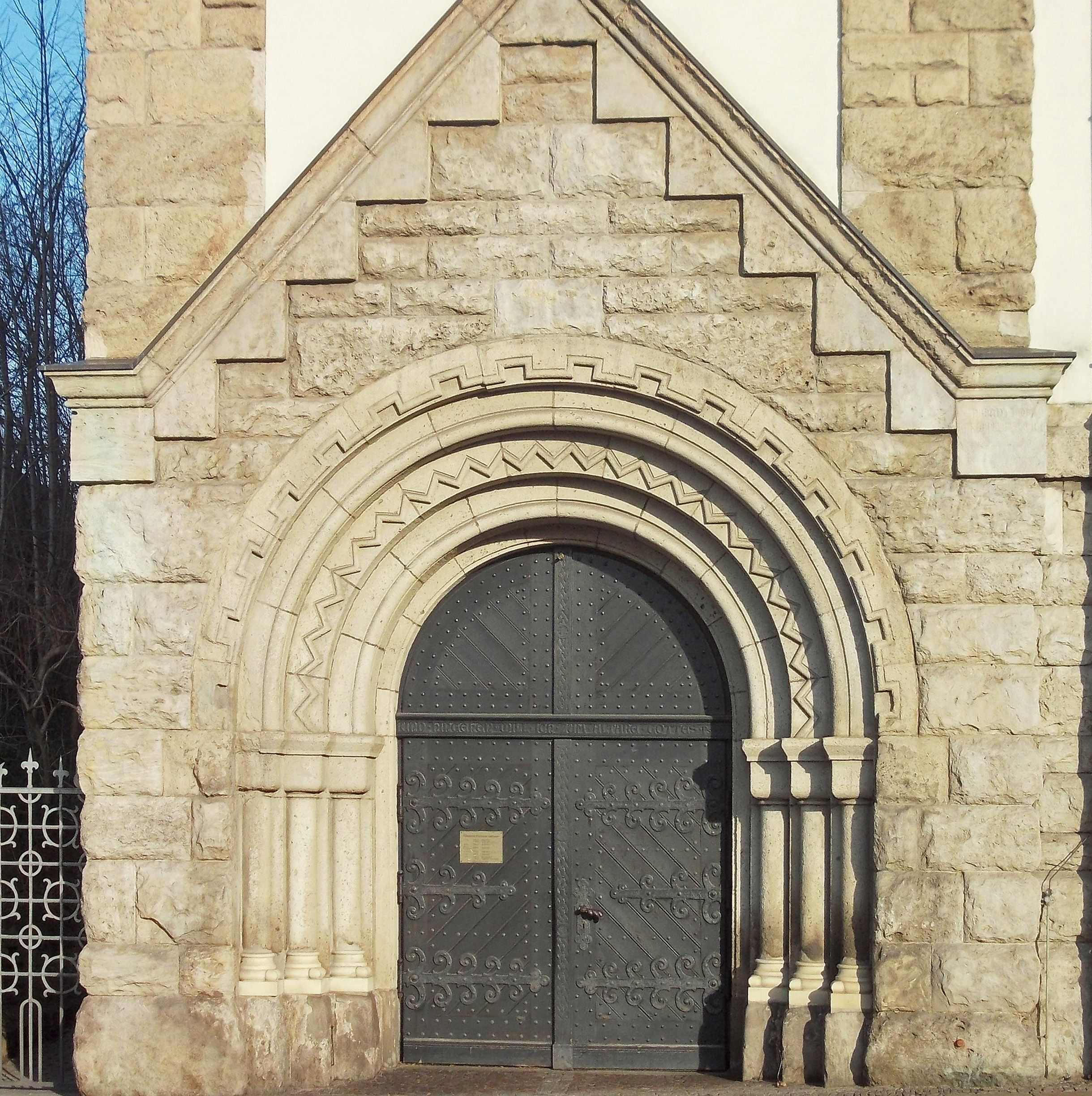 Roman Catholic Our Lady's Church in Lindenau (Leipzig, Saxony), opposite Leipzig-Plagwitz train station